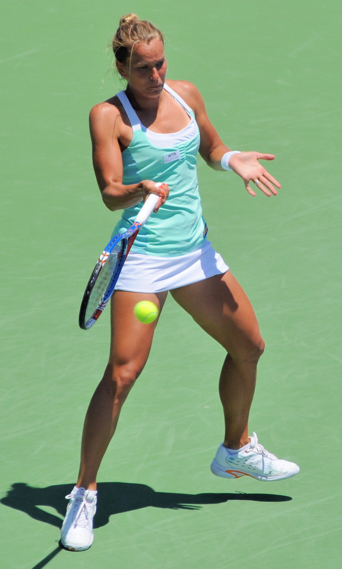 Barbora Zahlavova Strycova Mercury Insurance Tennis Open 2011